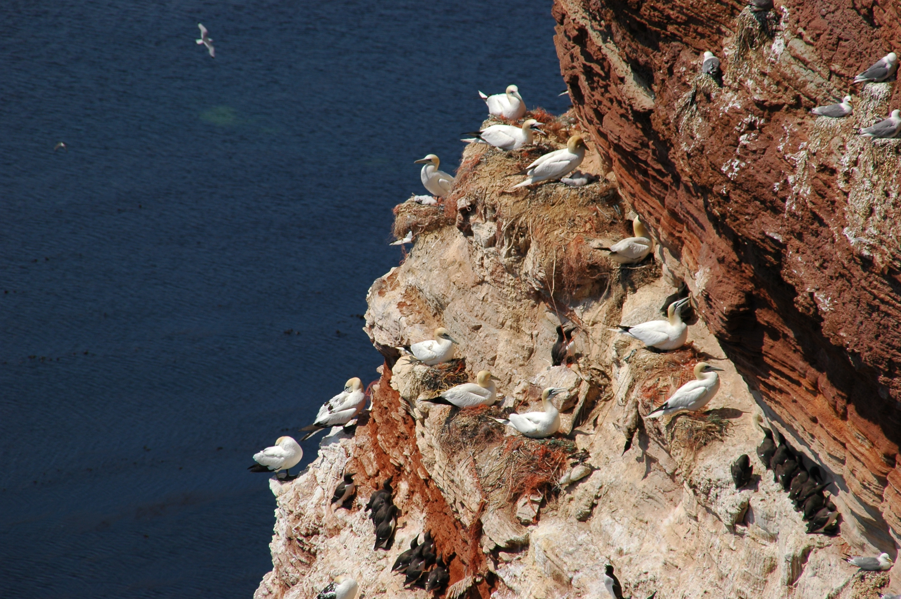 Northern Gannets and Common Guillemots on Heligoland